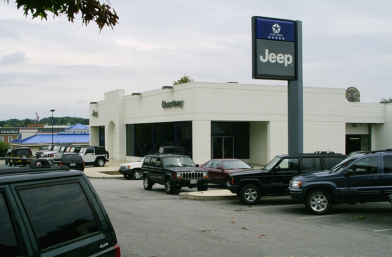 Car dealership in Rockville, Maryland (Courtesy Jeep, now Darcars Chrysler/Jeep) located at: 755 Rockville Pike. Rockville, Maryland 20852.